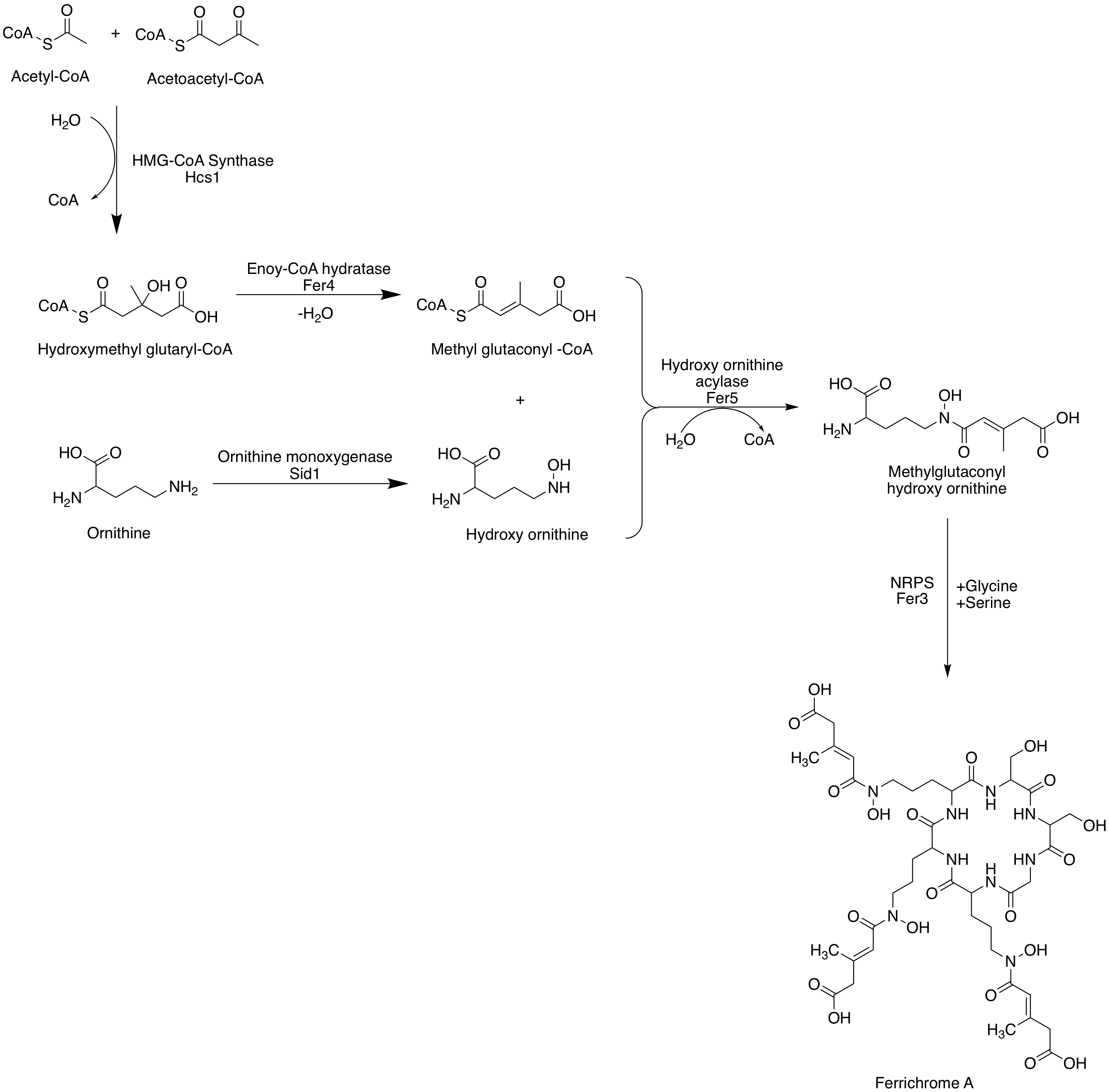 Ferrichrome A